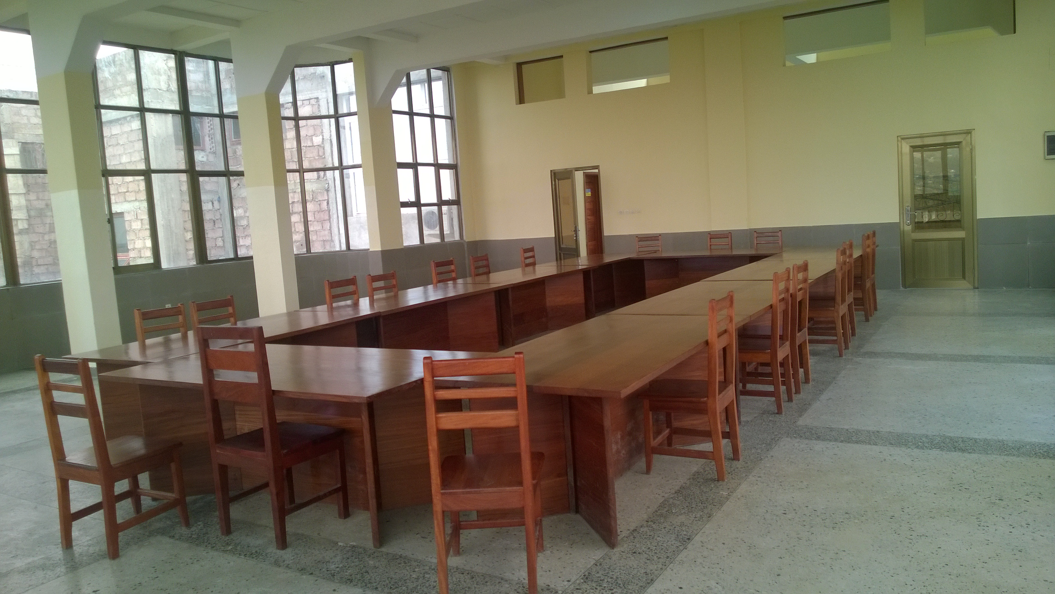 This is an image with the theme "Play" from: Democratic Republic of the Congo